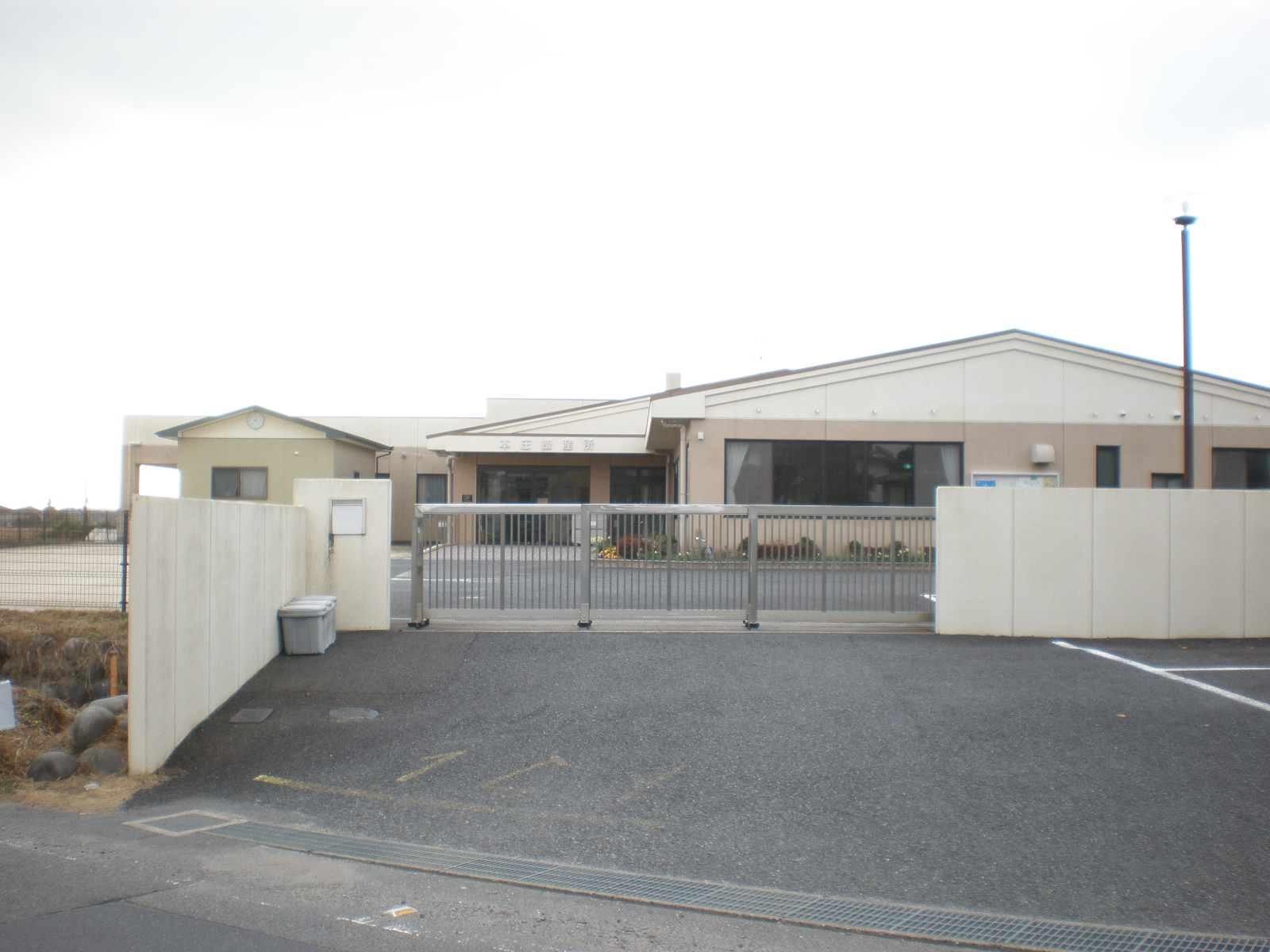 Honjyo Jyusanjyo is the sheltered workshop for intellectually disabled people in Komaki, Aichi Pref.